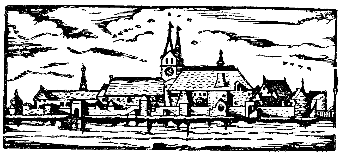 Tegernsee Monastery, oldest known depiction from around 1560, woodcut by Jost Amann. Published in the Landtafeln by Philip Apian